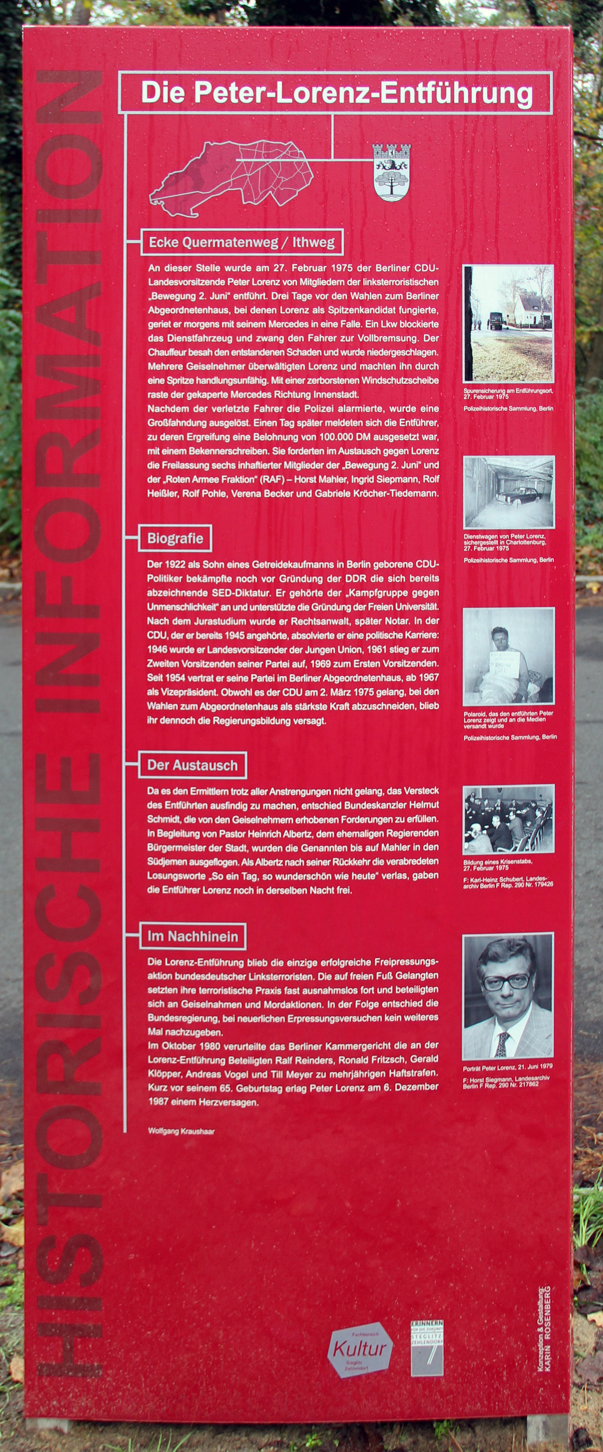 Memorial plaque, Peter Lorenz, Quermatenweg 128, Berlin-Zehlendorf, Deutschland